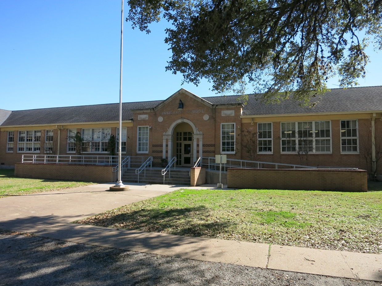 Photo shows Jane Long Elementary School at 907 Main Street in Richmond, TX. The school is part of Lamar CISD.